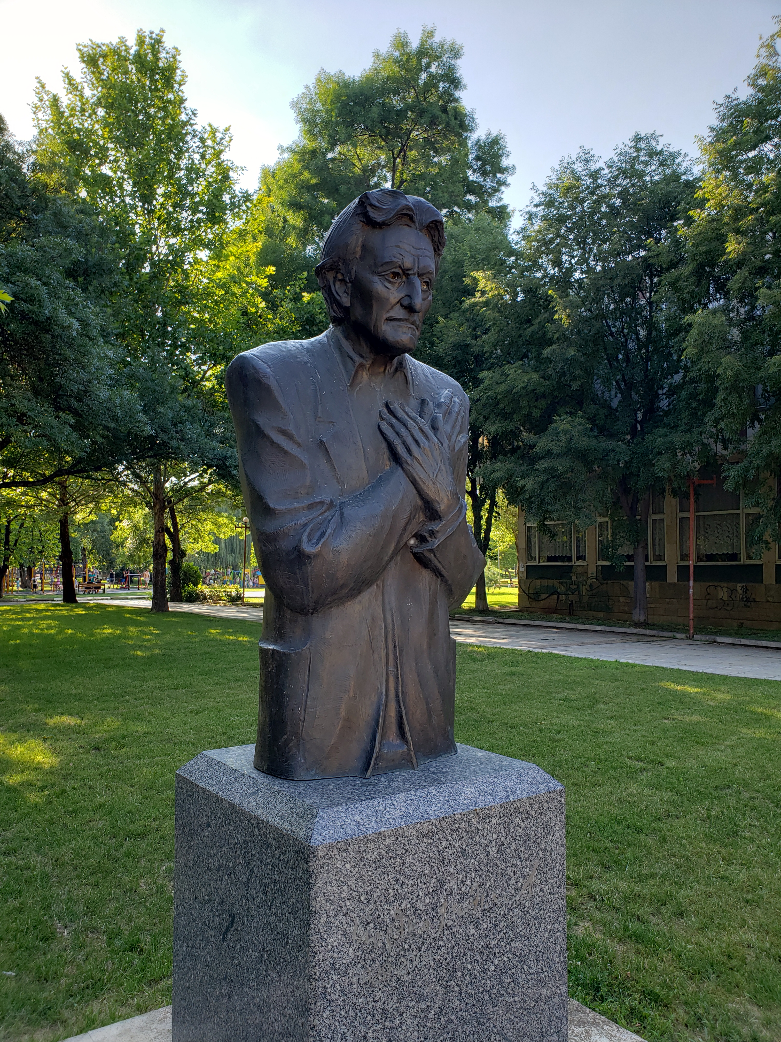 Паметник на Йордан Радичков в град Монтана